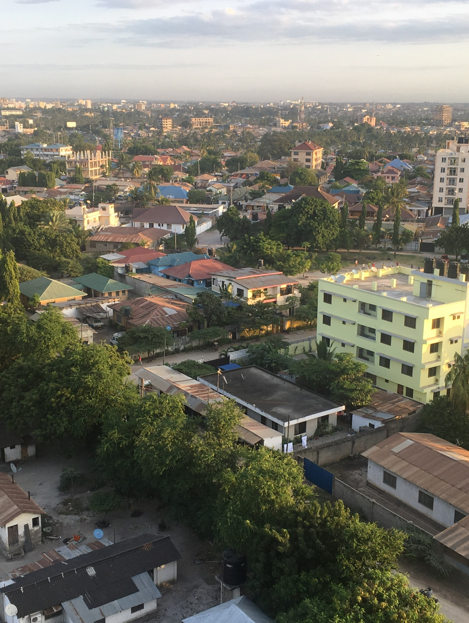 Magomeni